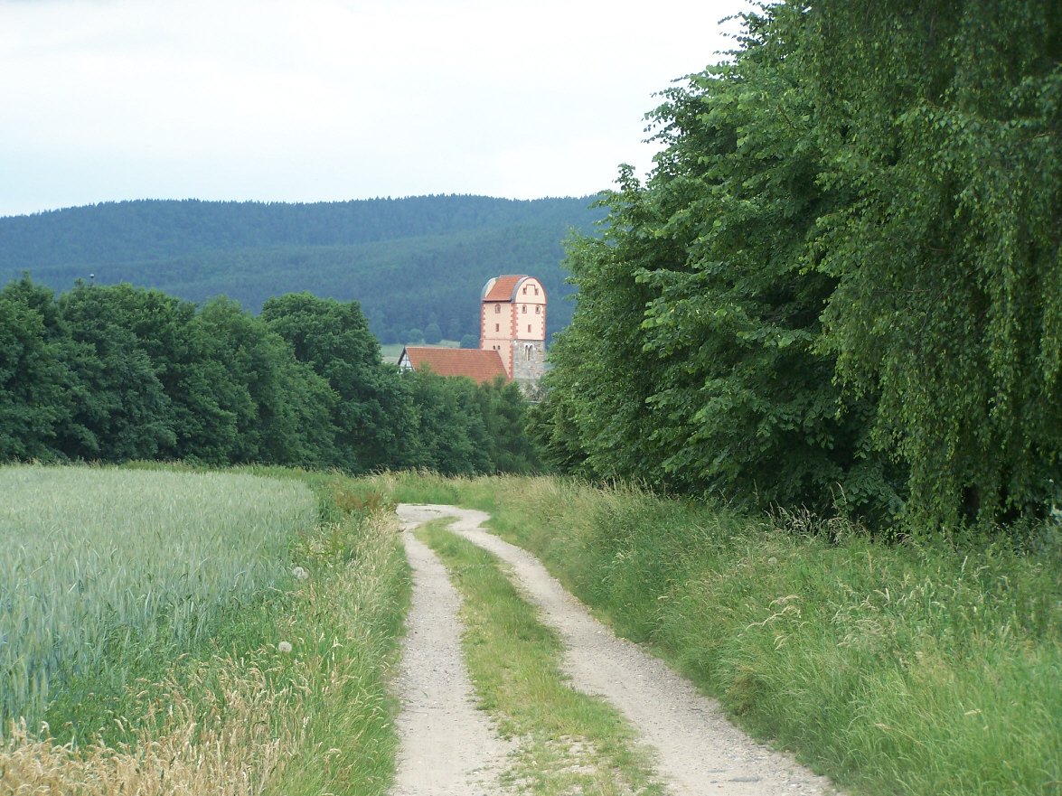 The basilica of Herrenbreitungen